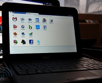 Cr-48 Chromebook running an early version of Chrome OS